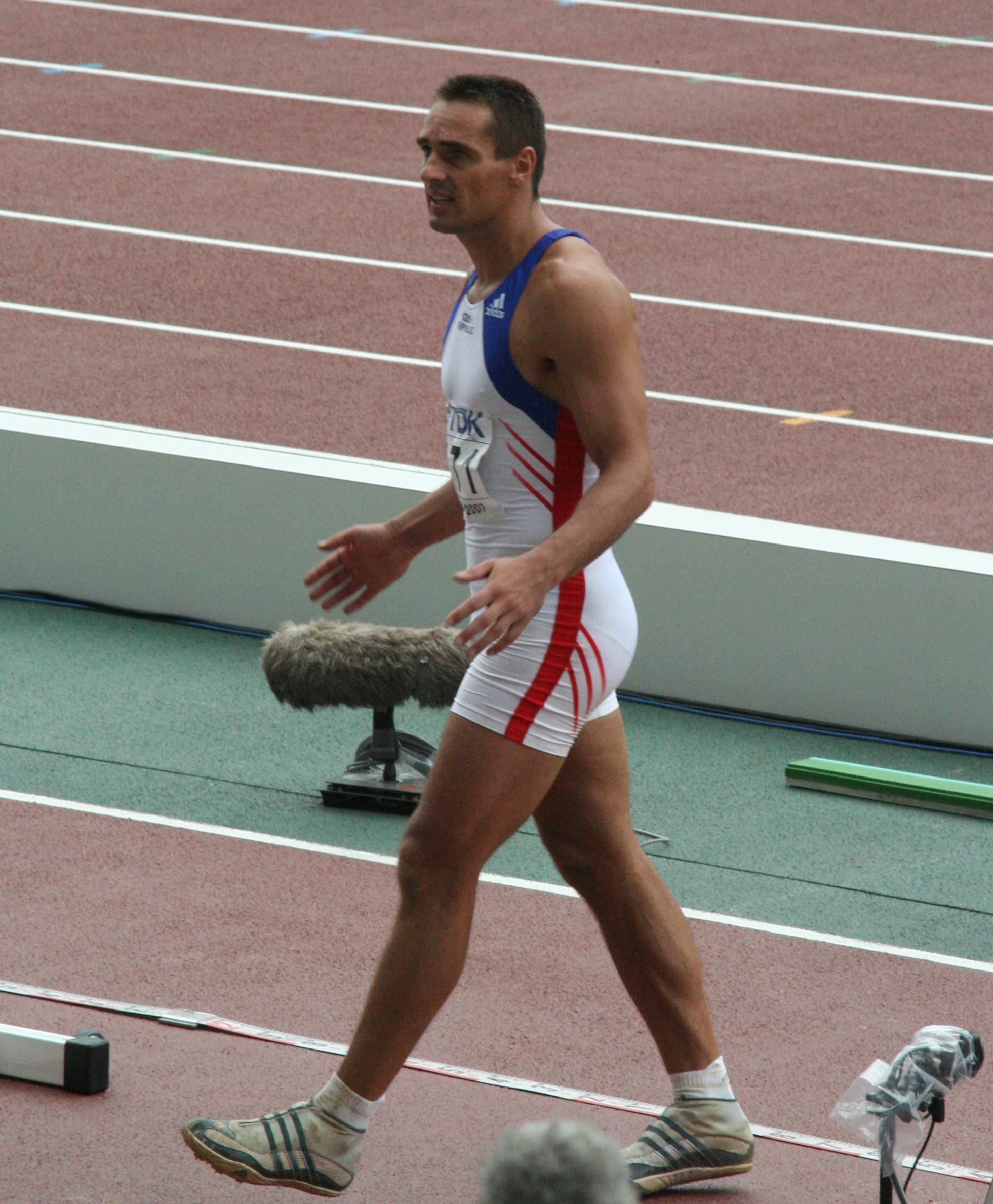 World Athletics Championships 2007 in Osaka - World record holder Roman Sebrle during the long jump part of the decathlon